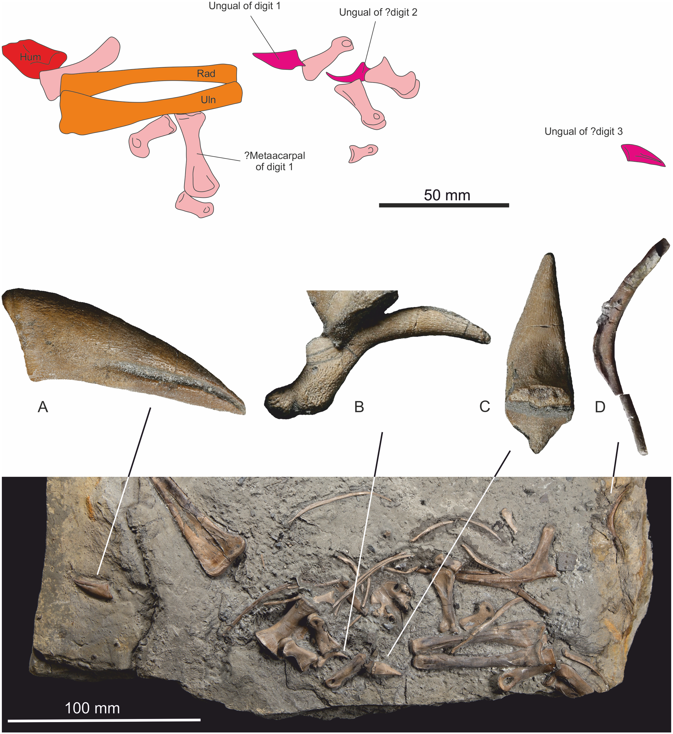 Manual elements of the holotype skeleton of Dracoraptor hanigani National Museum Wales (NMW) 2015.5G.1–2015.5G.11. Outline diagram showing the disarticulated assemblage of manual elements relative to the articulated radius and ulna. (A-C) Morphology of unguals. Exact position in manus uncertain; (D) furcula.